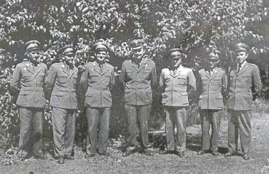 Dowódctwo 64. LPSz z Przasnysza, trzeci od lewej kpt.pil. Bolesław Andrychowski, w środku mjr pil. Kazimierz Ciepiela, pierwszy z prawej kpt. lek. Zygmunt Gwardys, 1959